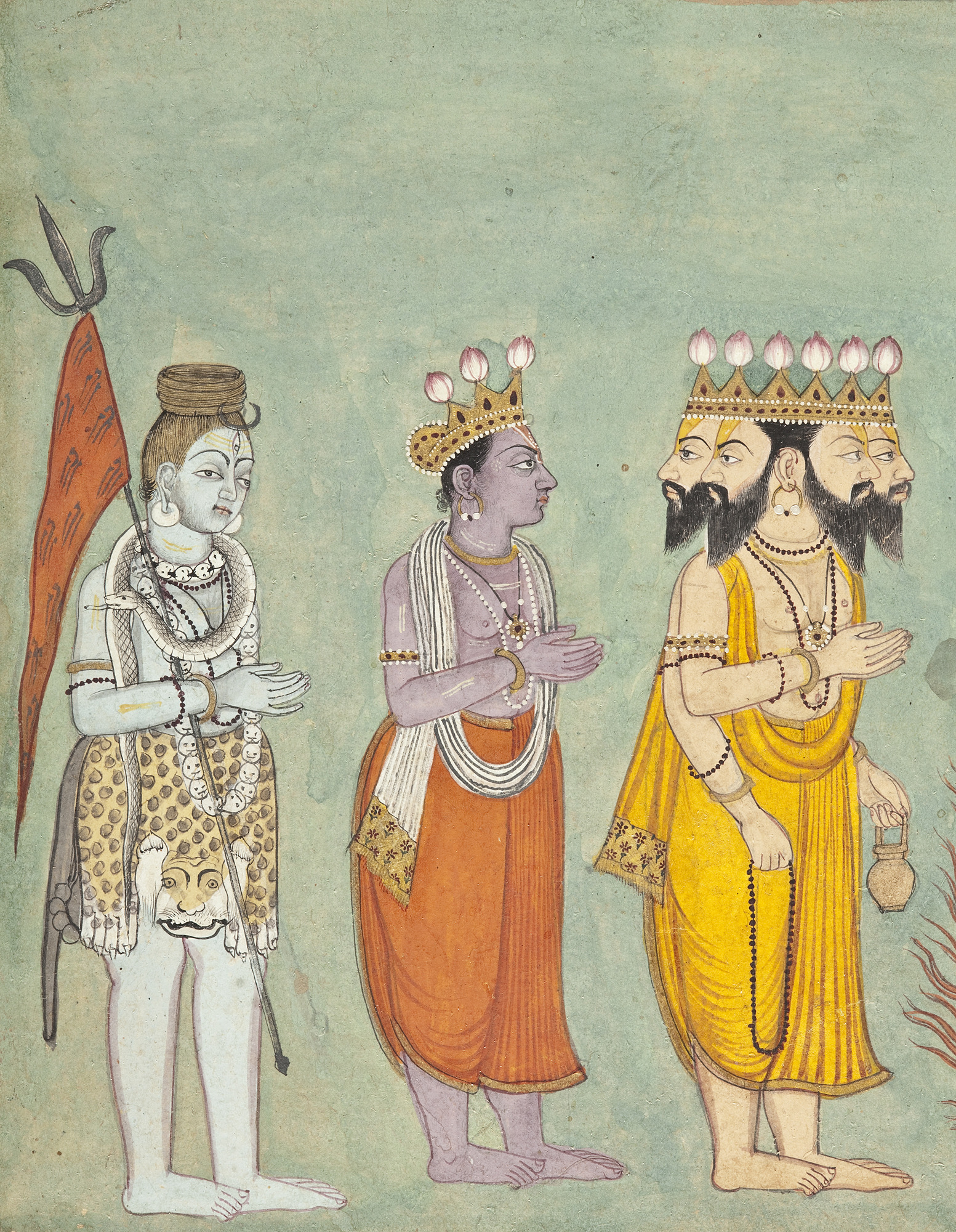 India, Himachal Pradesh, Basohli, circa 1740 Drawings; watercolors Opaque watercolor, gold, silver, and ink on paper Purchased with funds provided by Dorothy and Richard Sherwood and Indian Art Special Purpose Fund (M.80.101) South and Southeast Asian Art